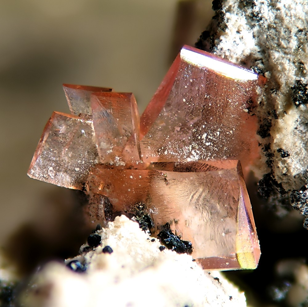 Phosphosiderite Locality: Hagendorf South Pegmatite (Cornelia Mine; Hagendorf South Open Cut), Hagendorf, Waidhaus, Vohenstrauß, Oberpfälzer Wald, Upper Palatinate, Bavaria, Germany (Locality at ) Picture width 2 mm. Collection and photograph Christian Rewitzer